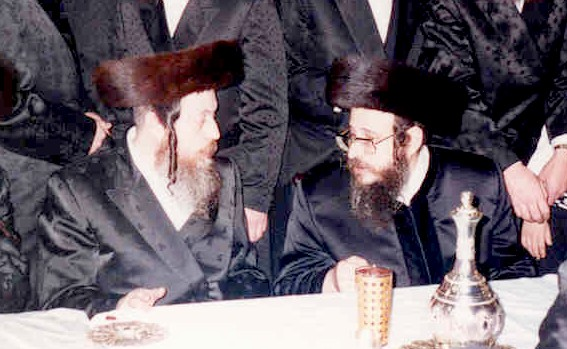 Rabbi Shlomo Goldman Zviller rebbe, photo by Y.M. (myself)